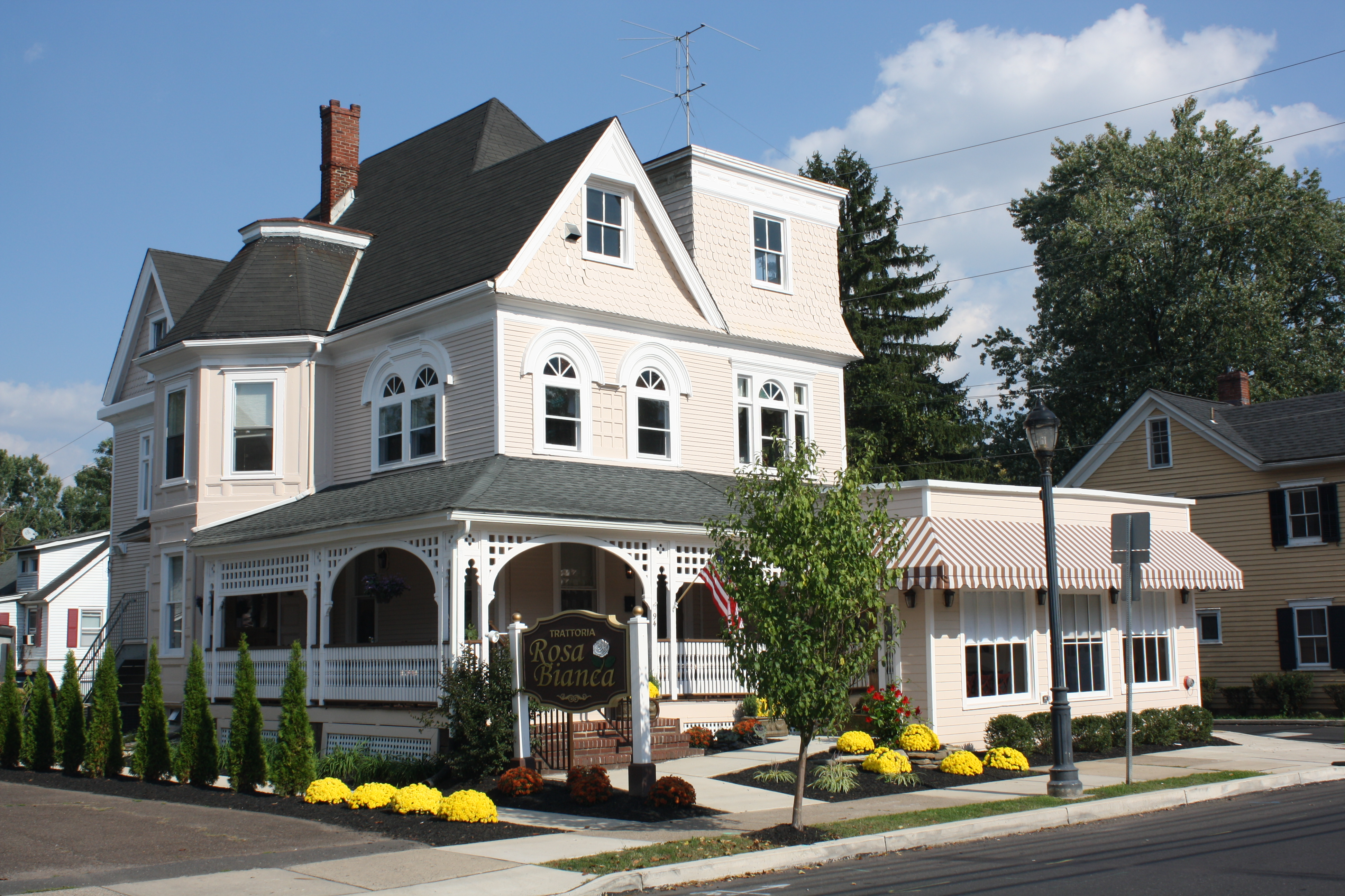 Yardley Historic District, Yardley, Pennsylvania. S. Main Street. Object location40° 14′ 34″ N, 74° 50′ 11″ W